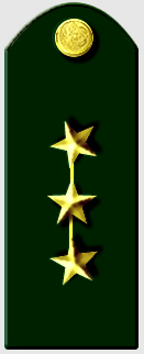 rank insignia of capitán (Captain) of the Colombian Army.